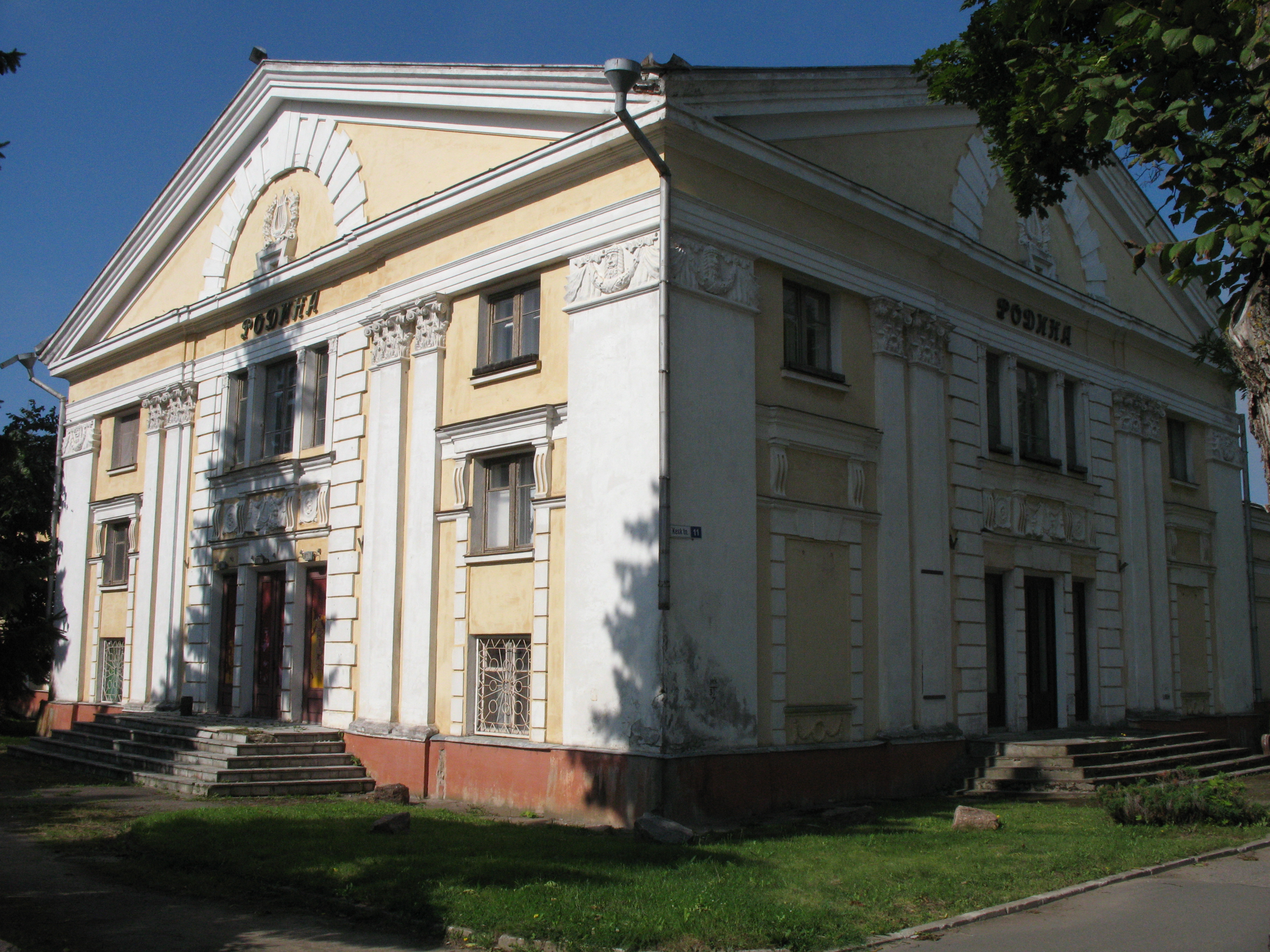 Cinema Rodina, located in Sillamäe, Ida-Viru County, Estonia. Built in 1955.